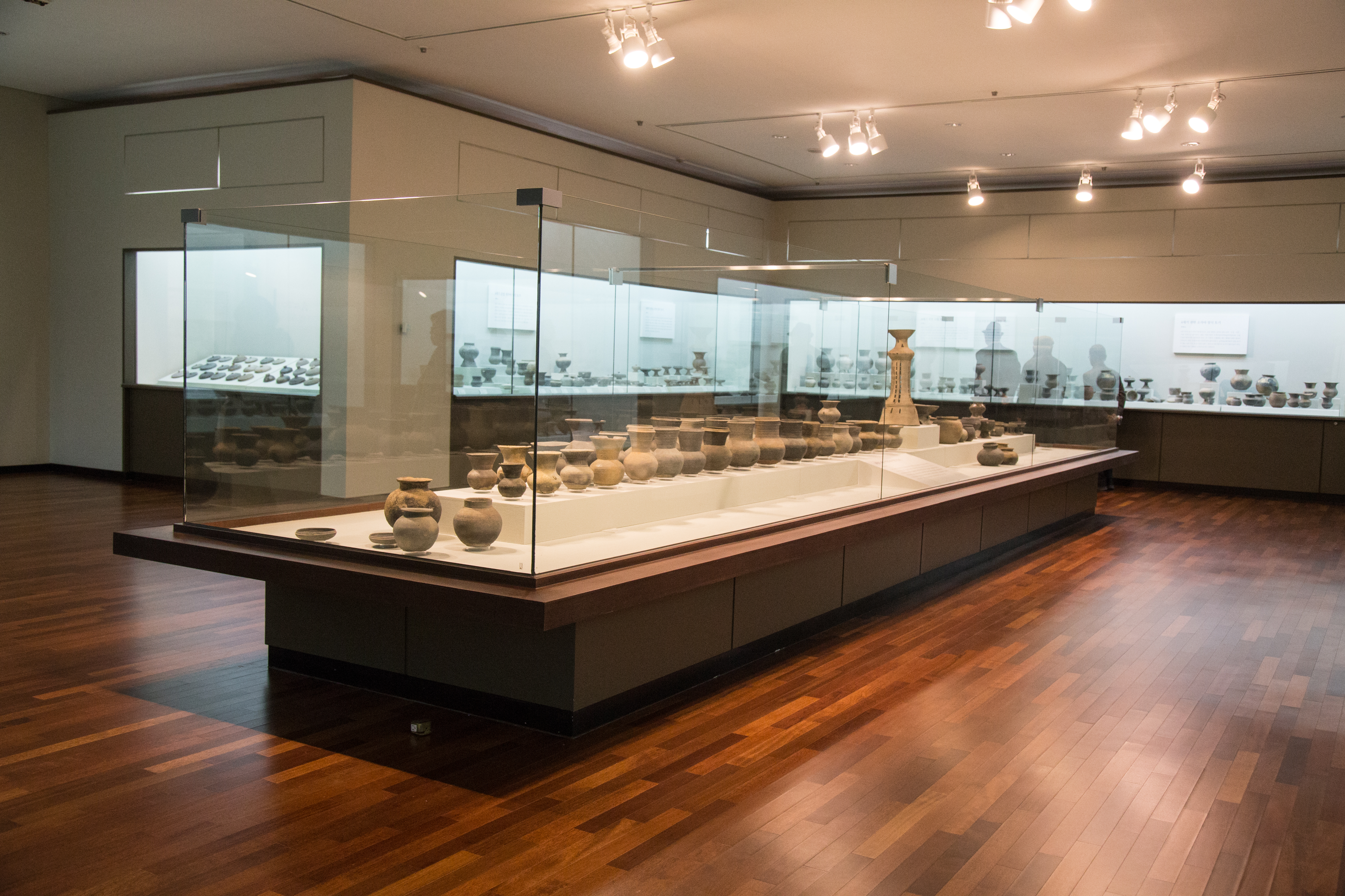 Prof. ByungChul Kim's donation of relics to Museum in Yonsei University